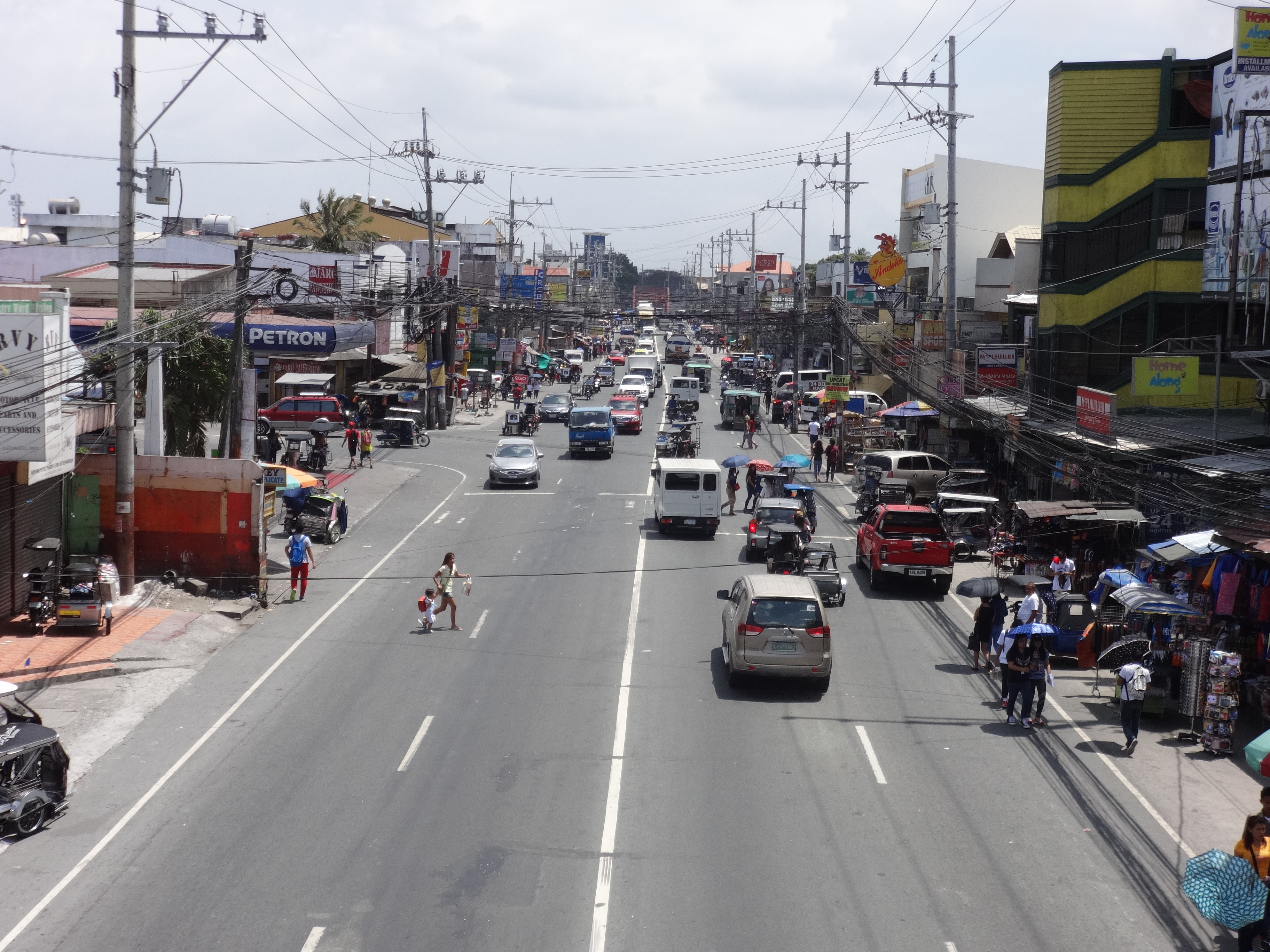 Gen. Mariano Alvarez town proper at Governor's Drive, Gen. Mariano Alvarez, Cavite